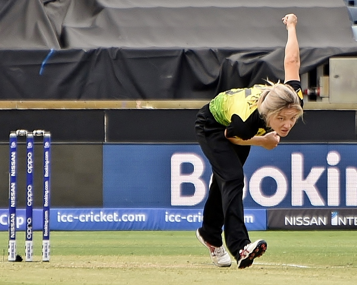 Nicola Carey bowling for Australia against Sri Lanka during their 2020 ICC Women's T20 World Cup match at the WACA Ground in Perth, Australia